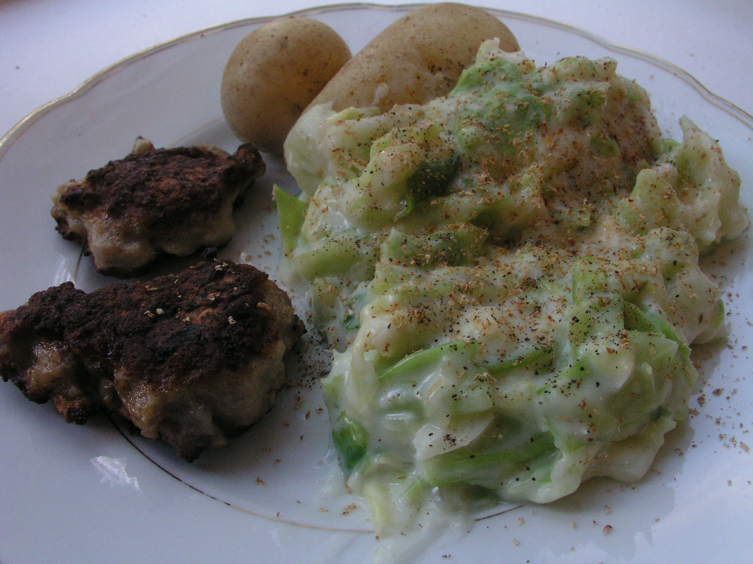 The danish dish frikadeller og stuvet hvidkål (lit. meat balls and cabbage in white sauce)